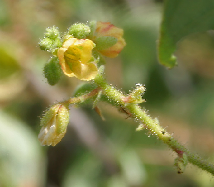 Chamaecrista absus (L.) H. S. Irwin & Barneby (syn. Cassia absus L.)- Jasmeejaz, Chaksu, chakushya, chimed- in Herbal Garden, in Rangareddy district of Andhra Pradesh, India.